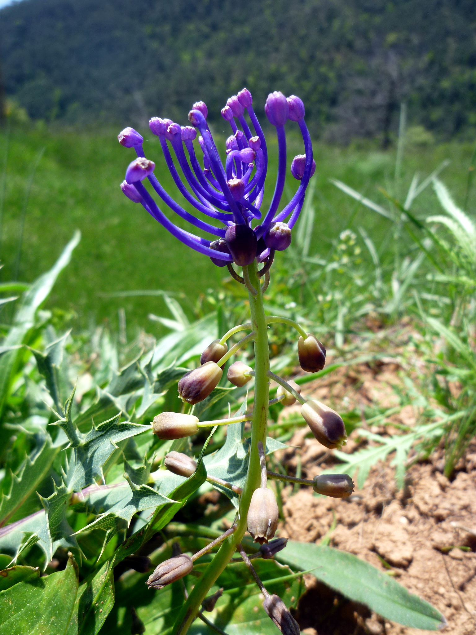 Muscari comosum. In Guixers (Solsonès-Catalunya). To 1.420 m. altitude